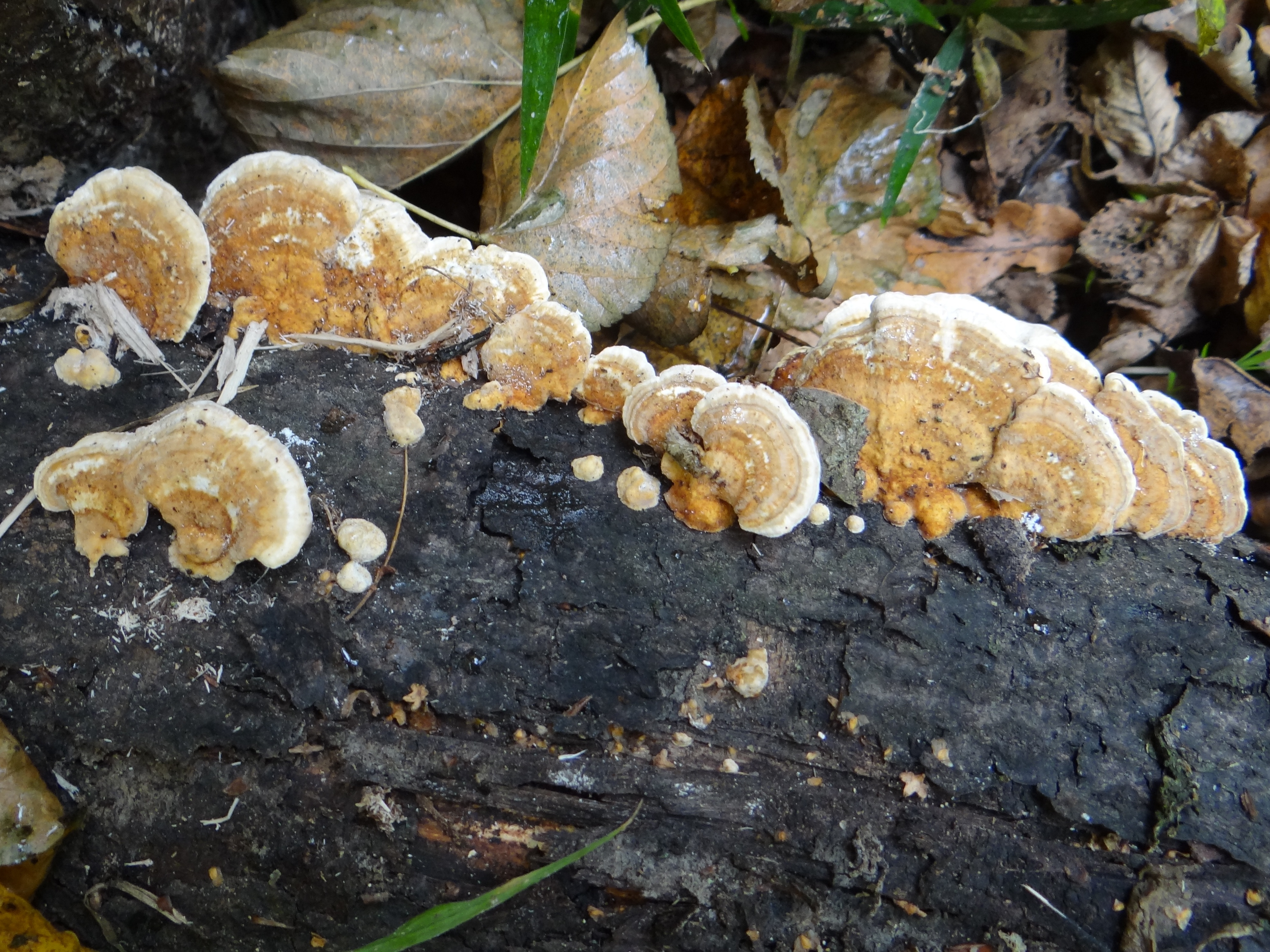 Trametes ochracea